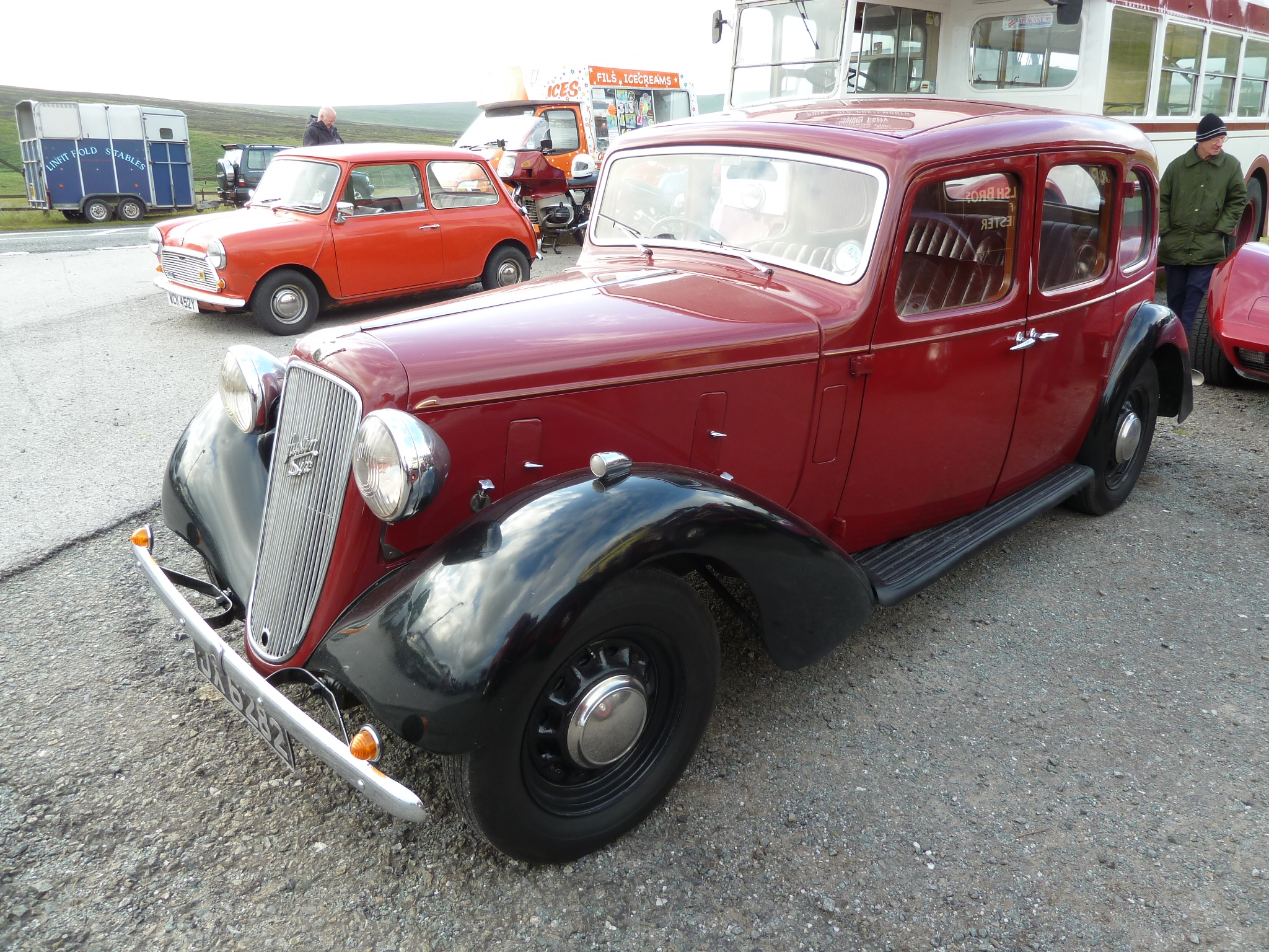 1938 Austin 14/6 Goodwood at Haworth first registered 11 March 1938, 2090 cc (DVLA)